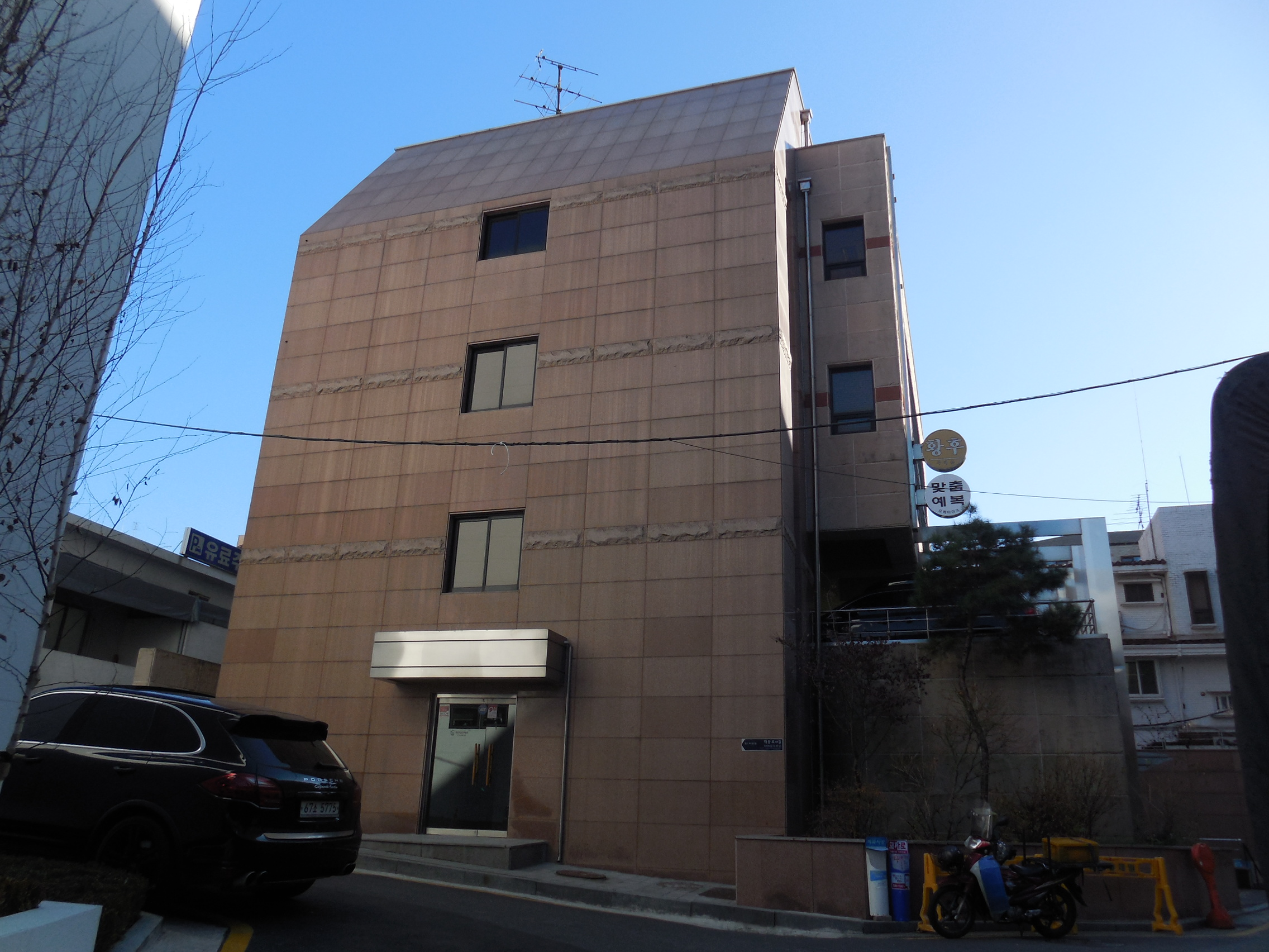 Building of Mi-r Foundation